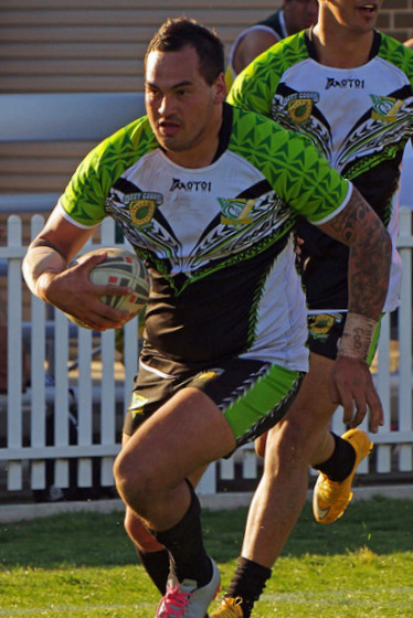 Rugby league footballer Wallace TangiʻitiVincent 'Vinnie' Ngaro representing the Cook Islands against Niue.